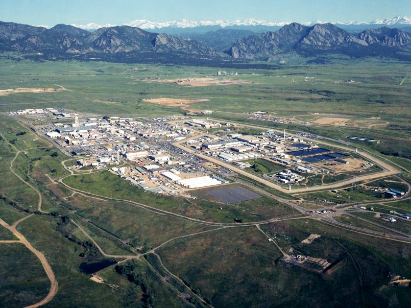 Rocky Flats Site. Aerial photograph taken prior to final cleanup.